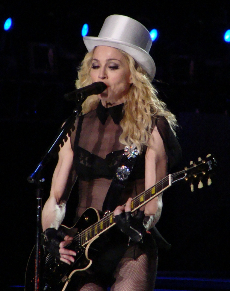 Madonna Day